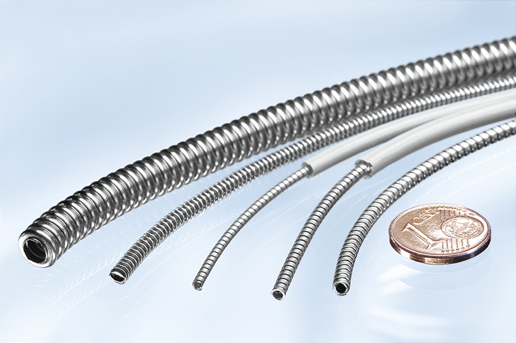 Size comparison of miniature hoses